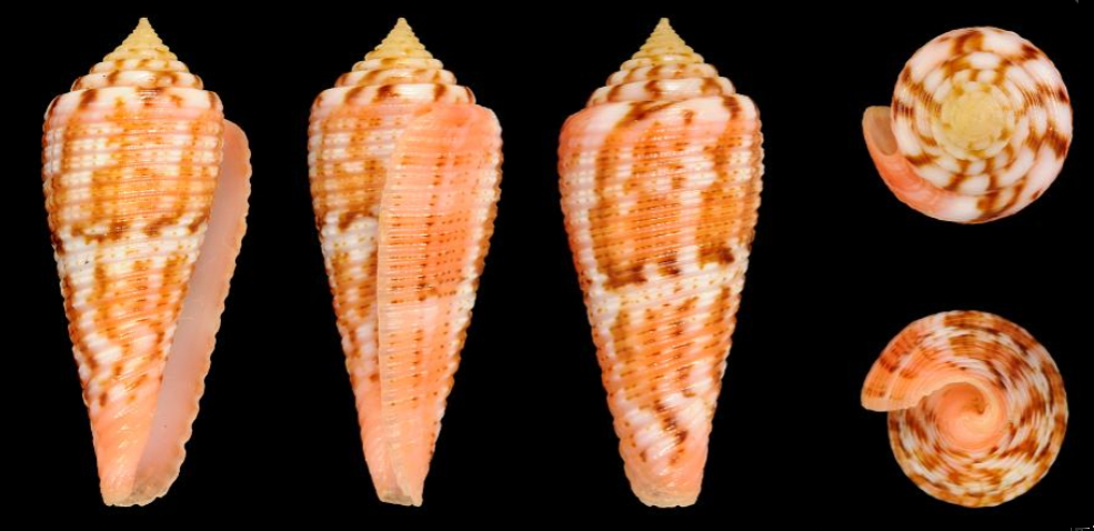 Conus granulatus Linnaeus, 1758; family Conidae; specimen at the Smithsonian Institution